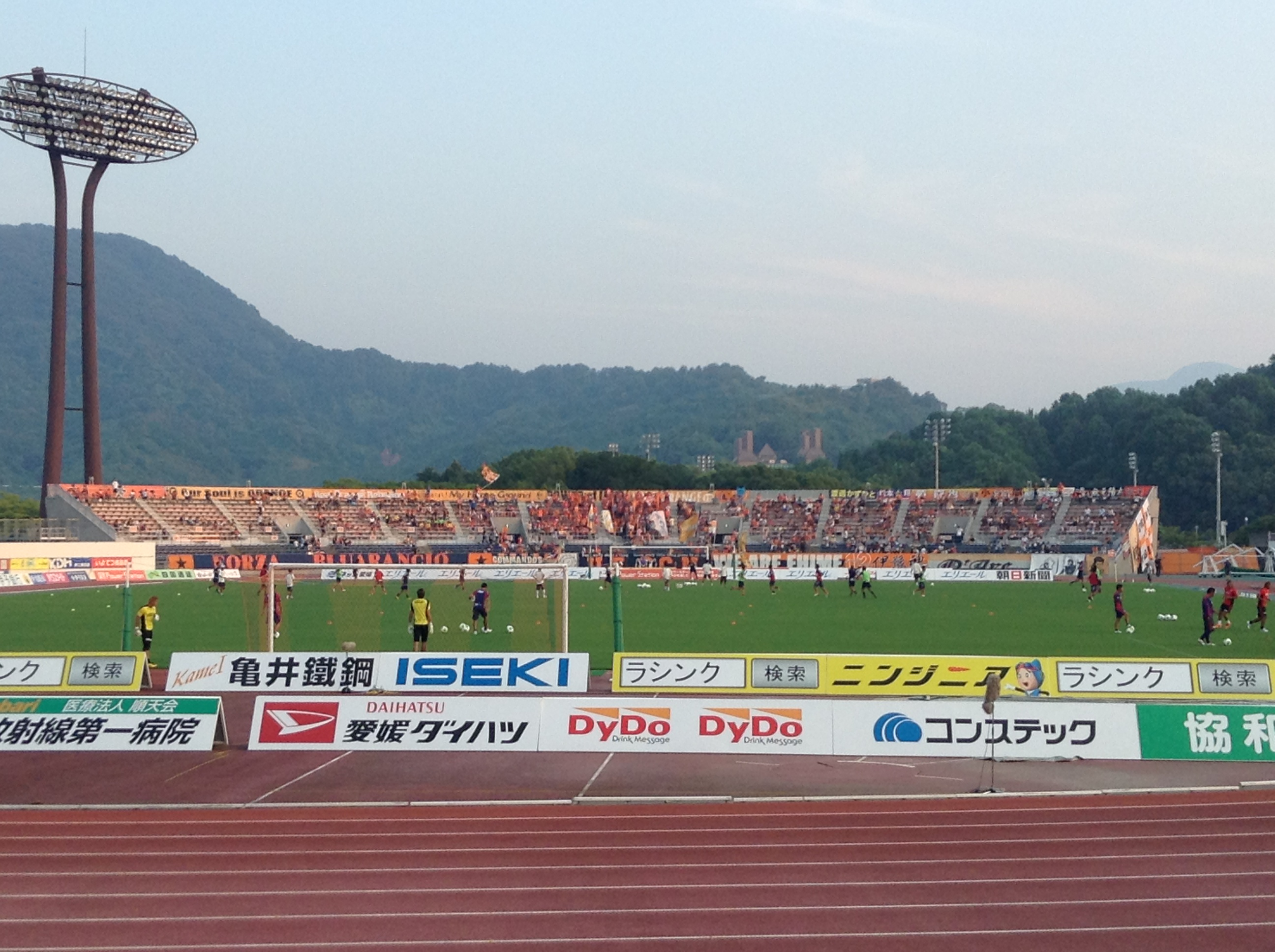 The supporter of Ehime FC , J. League Division 2 , Ehime FC vs Kyoto Sanga F.C., 11 August, 2013.